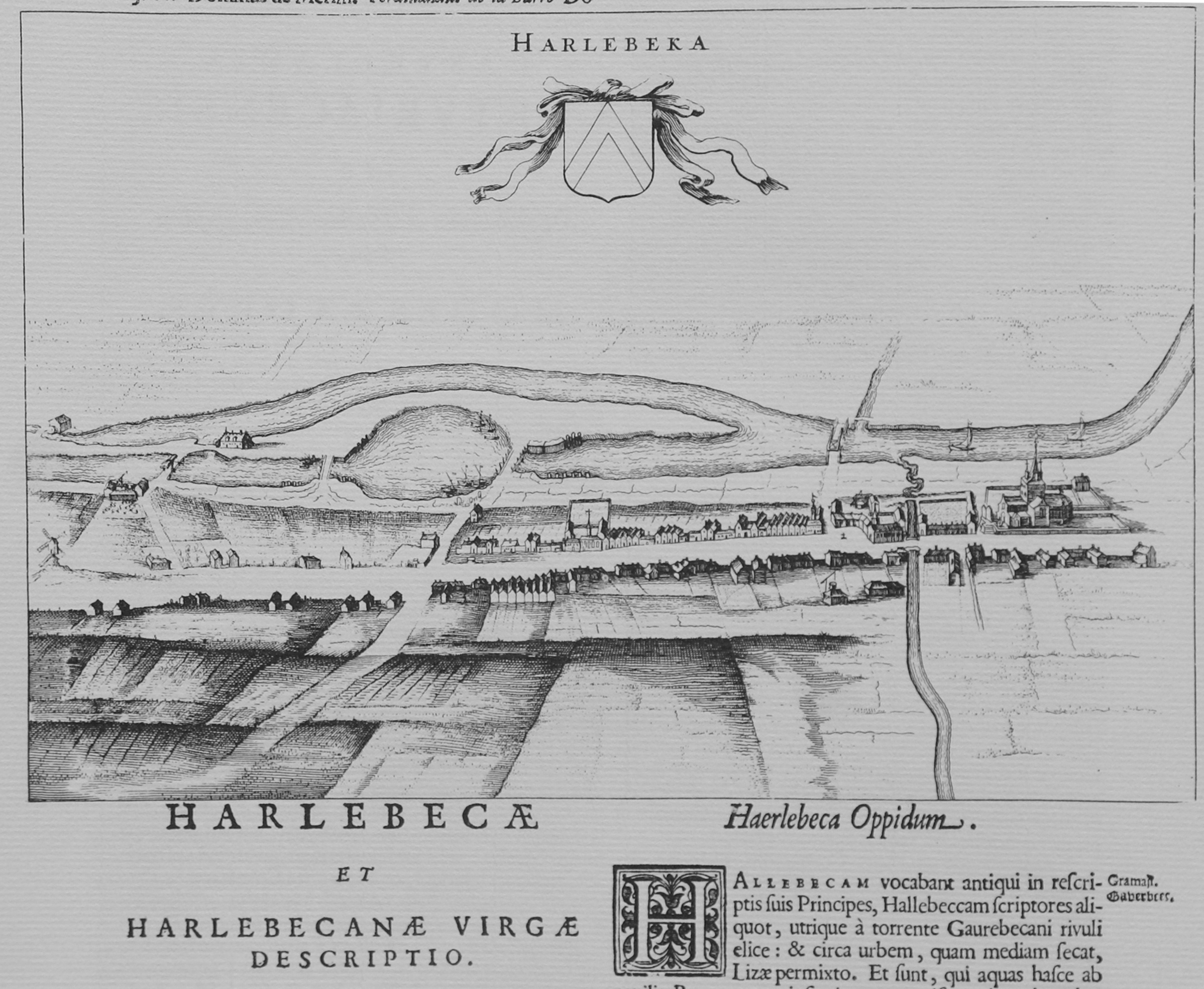 Harelbeke (Belgium): Page 318 of Anton Sander's, Flandria Illustrata: the town in 1641